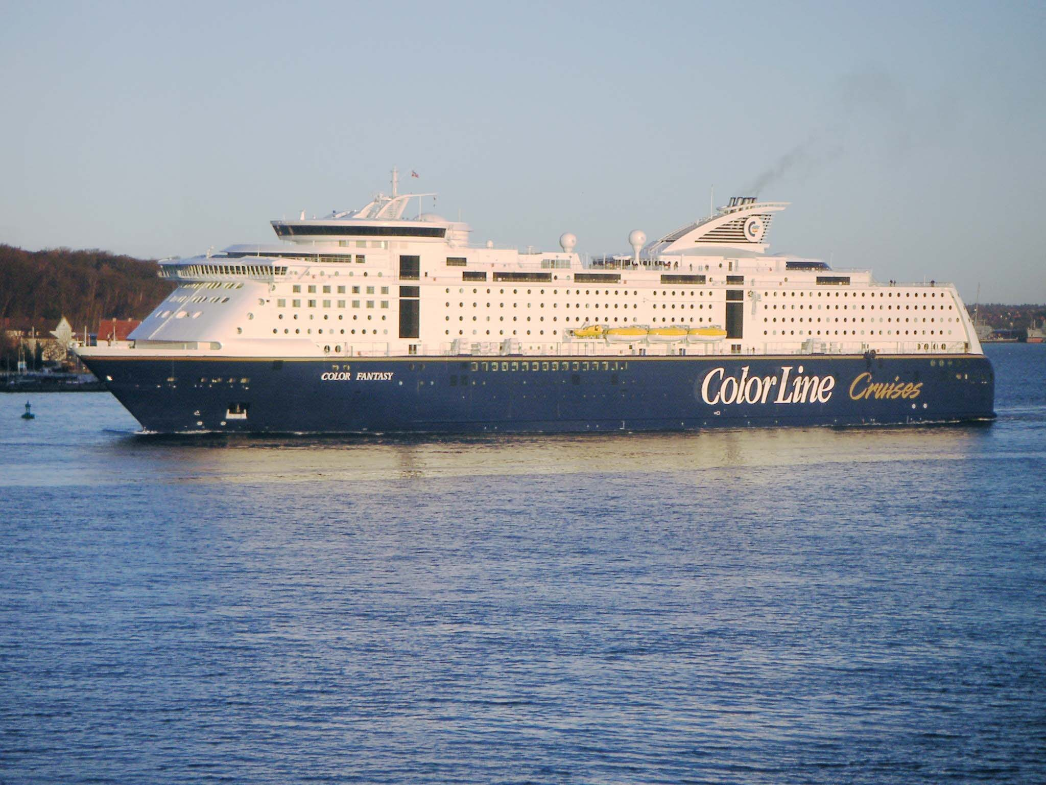 Color Fantasy at sunrise in Kiel.